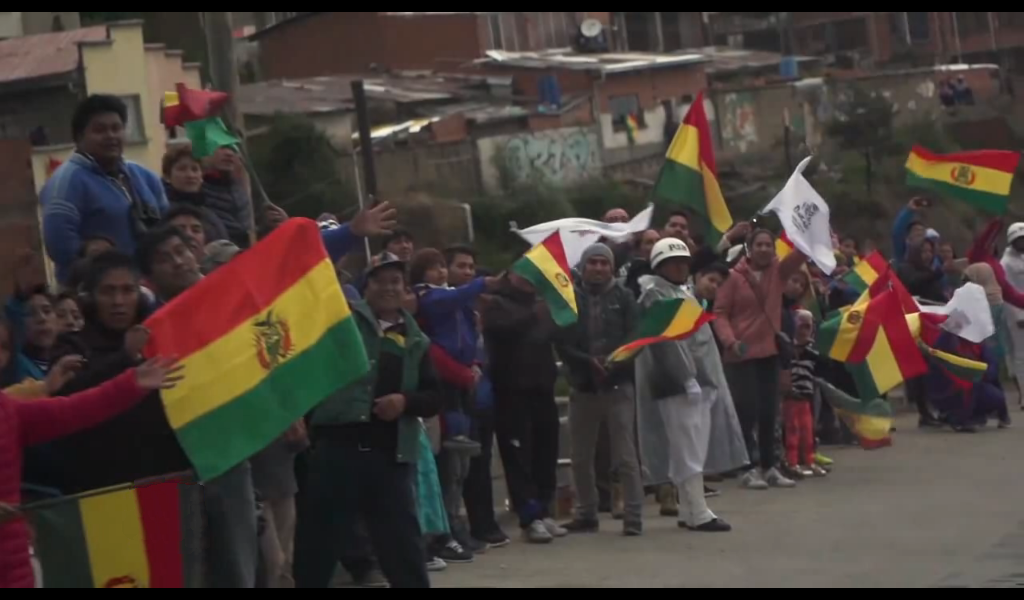 Dakar Rally arriving to Bolivia. Picture captured from the Stage 6 video made by Barth Racing Channel.